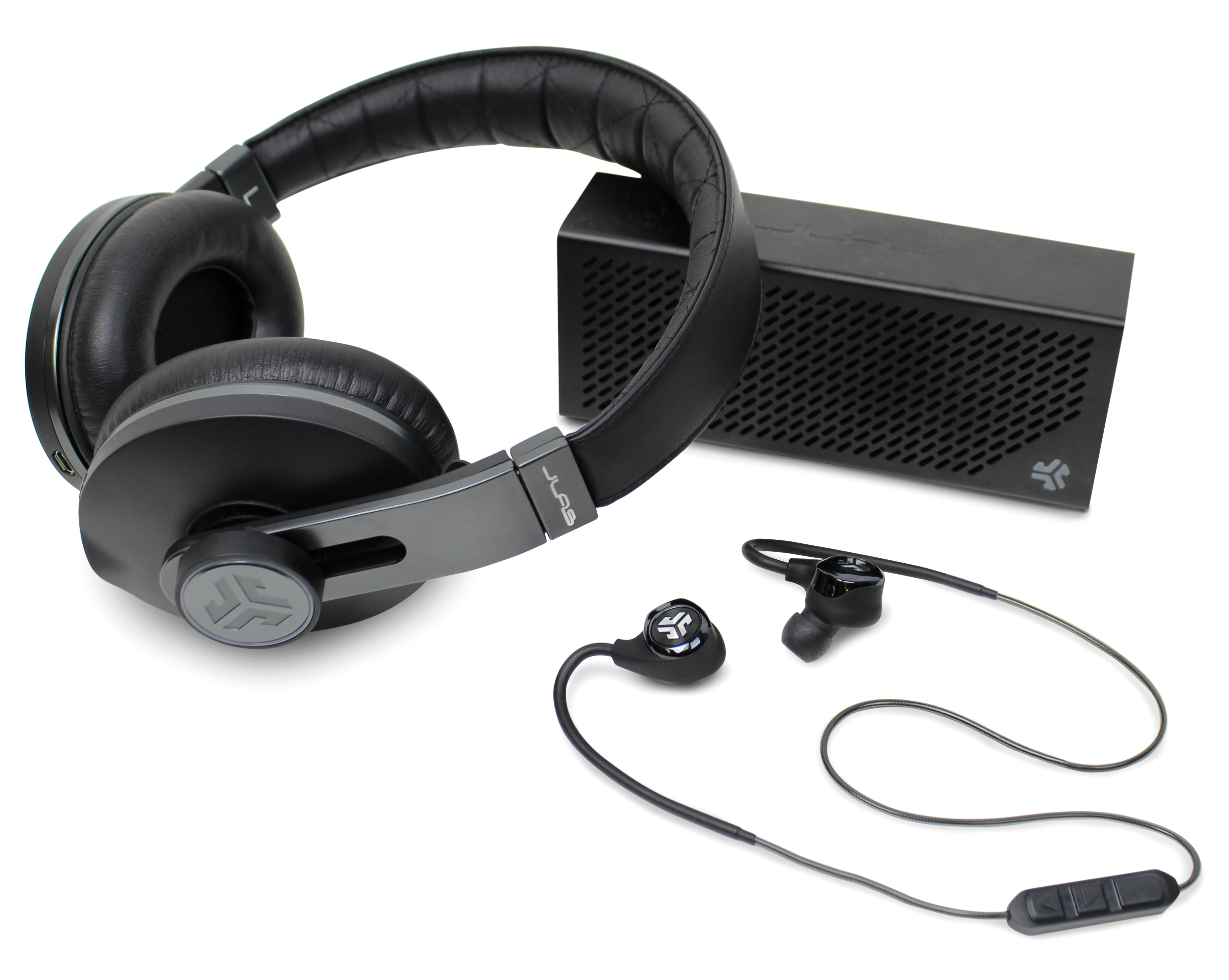 Bluetooth wireless audio - headphones, speaker and earbuds